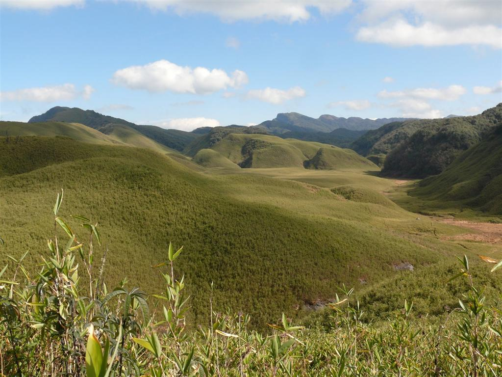 The Dzuko Valley lying near the border of Manipur and Nagaland has a temperate climate